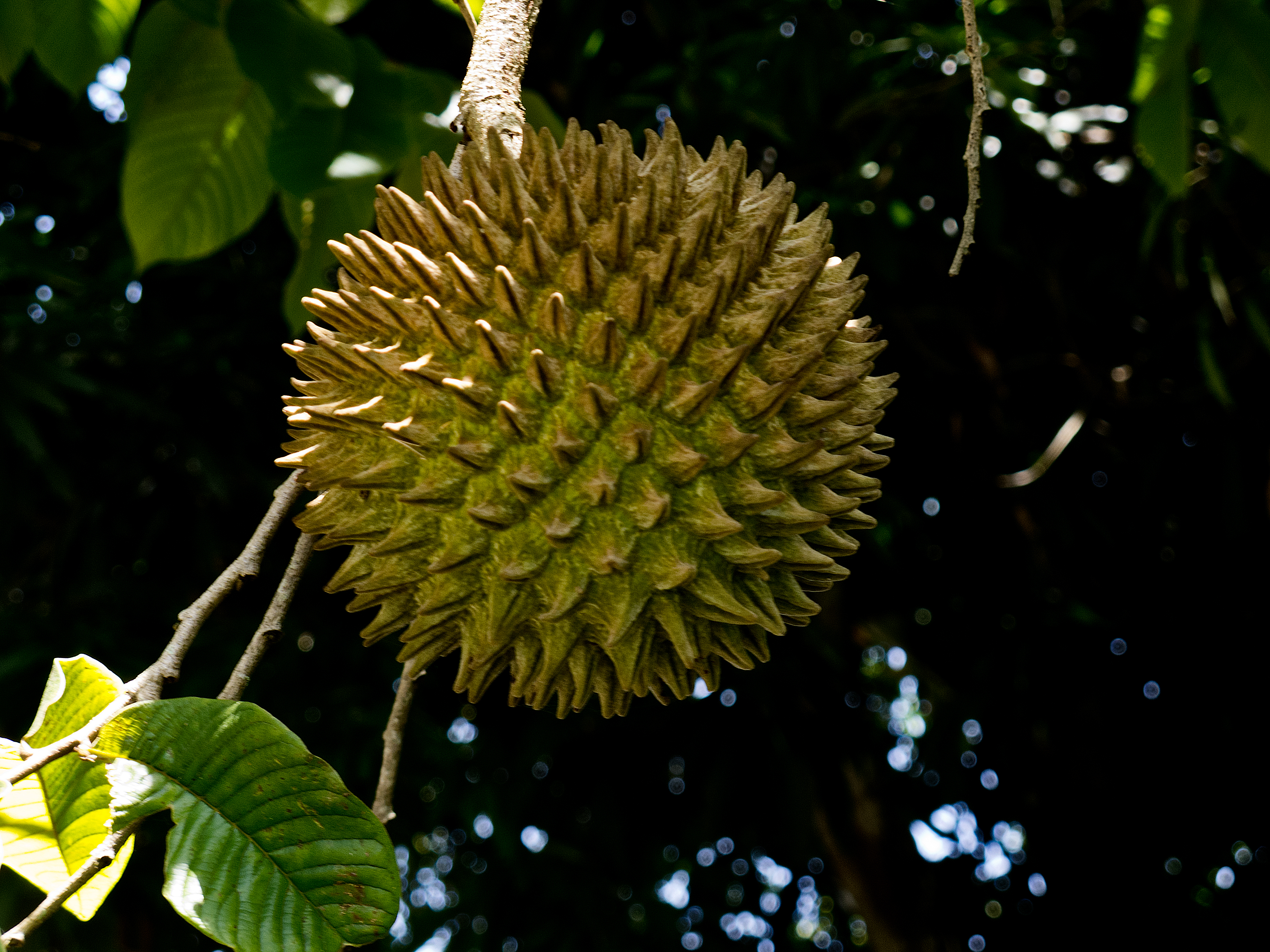 Annona Purpurea, growing on a tree in El Salvador. Called Soncuya, Sincuya(El Salvador), Cabeza de Negro, Ilama, etc. in other places.